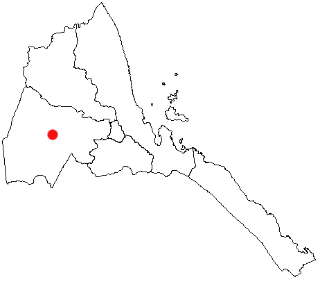 Barentu, Eritrea Location Map; created with the GIMP. Made by Acntx.